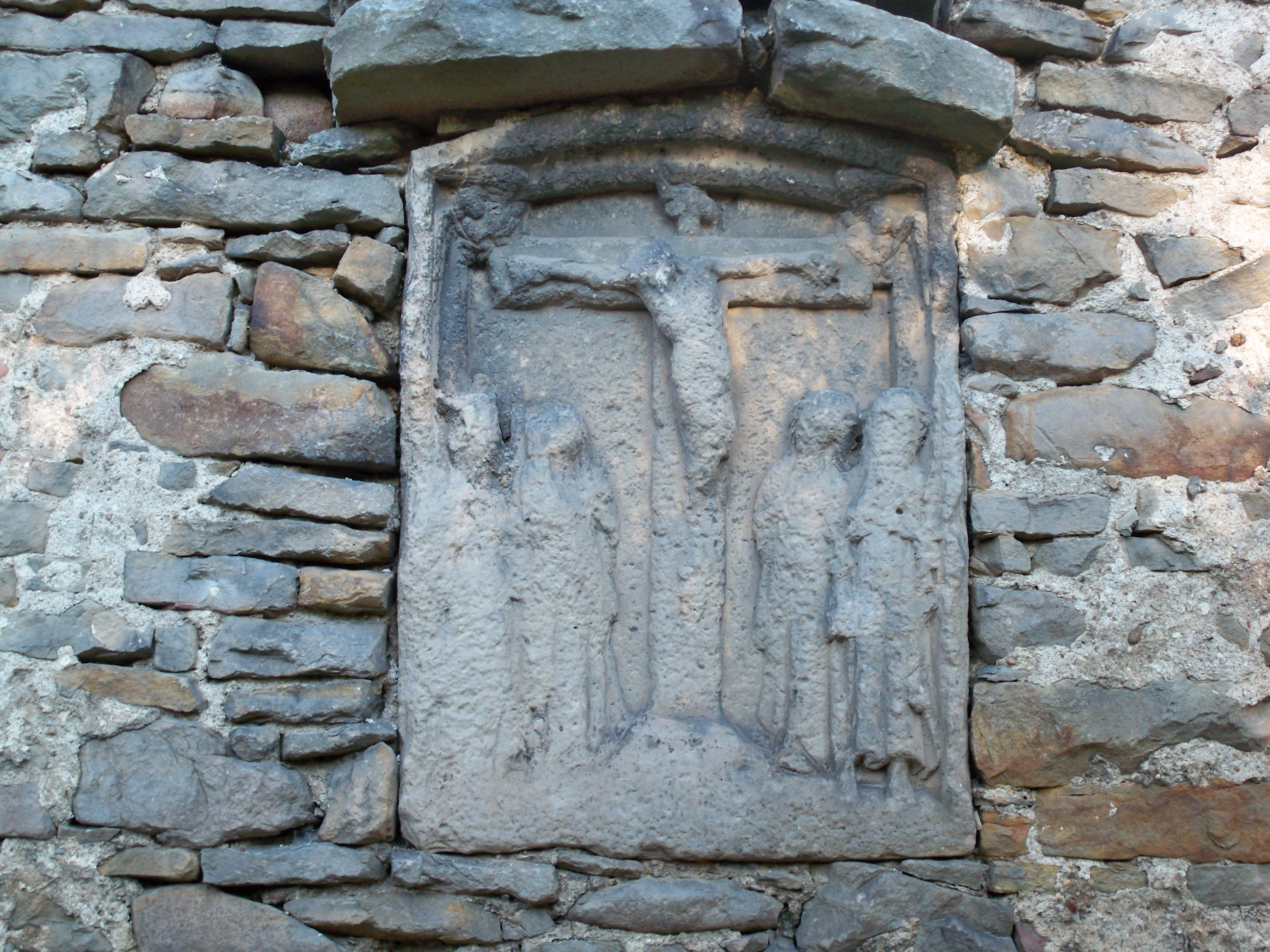 Oebisfelde-Weferlingen, Saxony-Anhalt, Oebisfelde, sandstone sculpture at the western side of tower